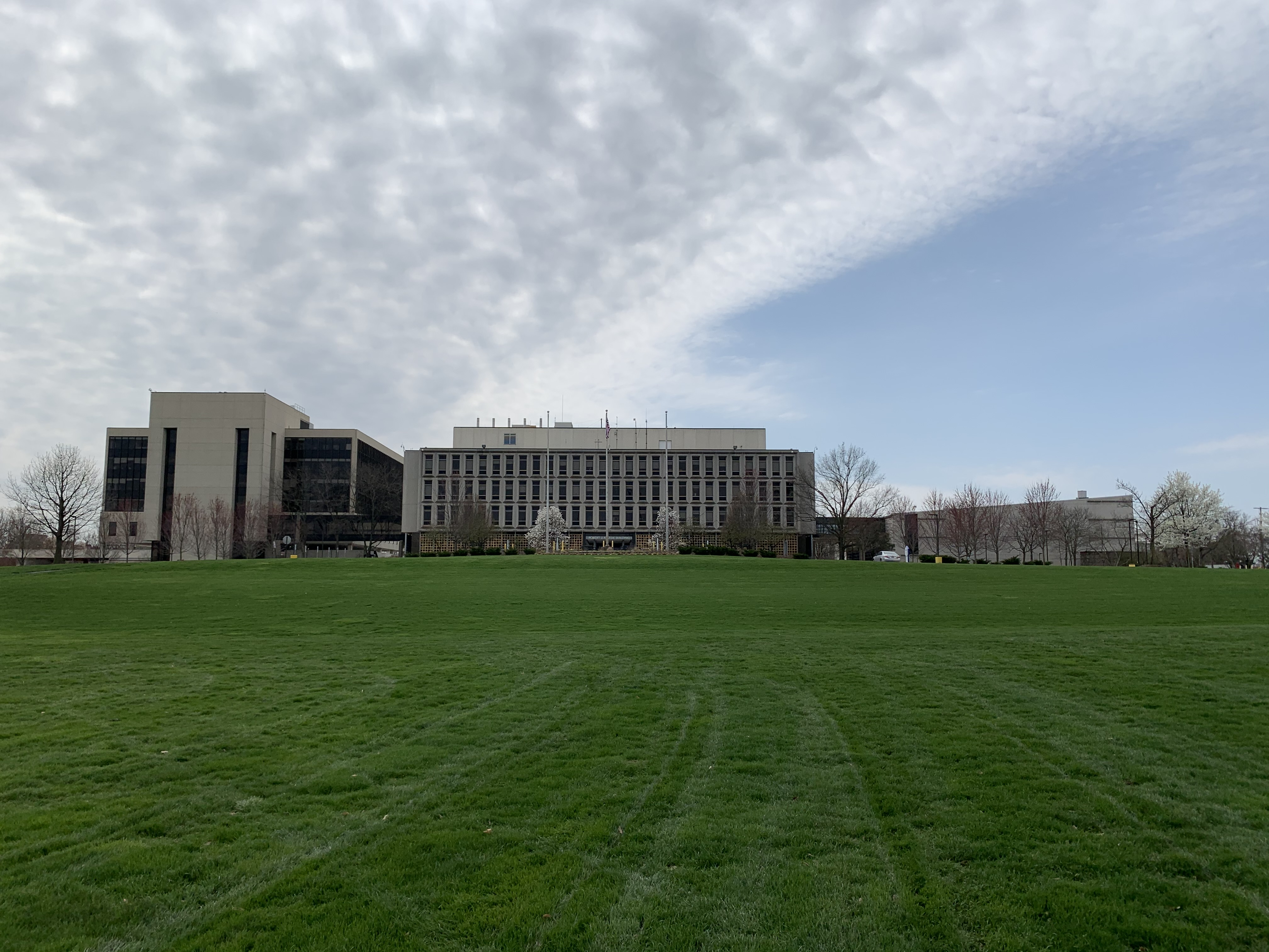 Chemical Abstracts Service complex in April 2020.